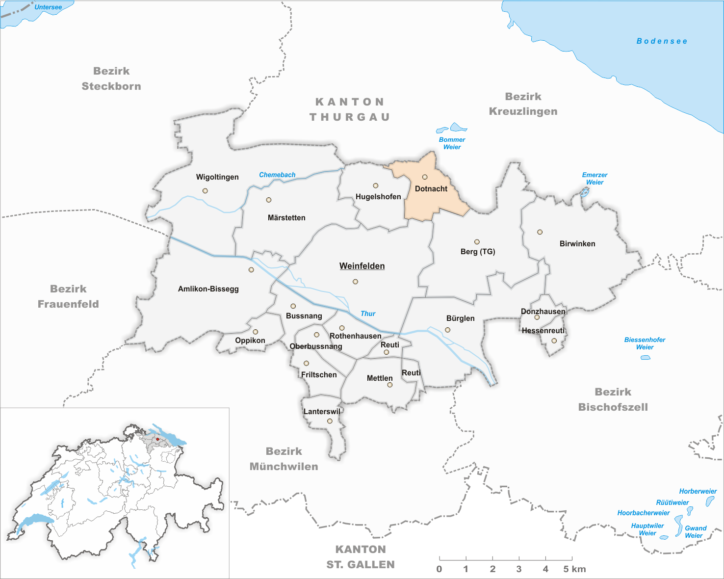 Municipality Dotnacht